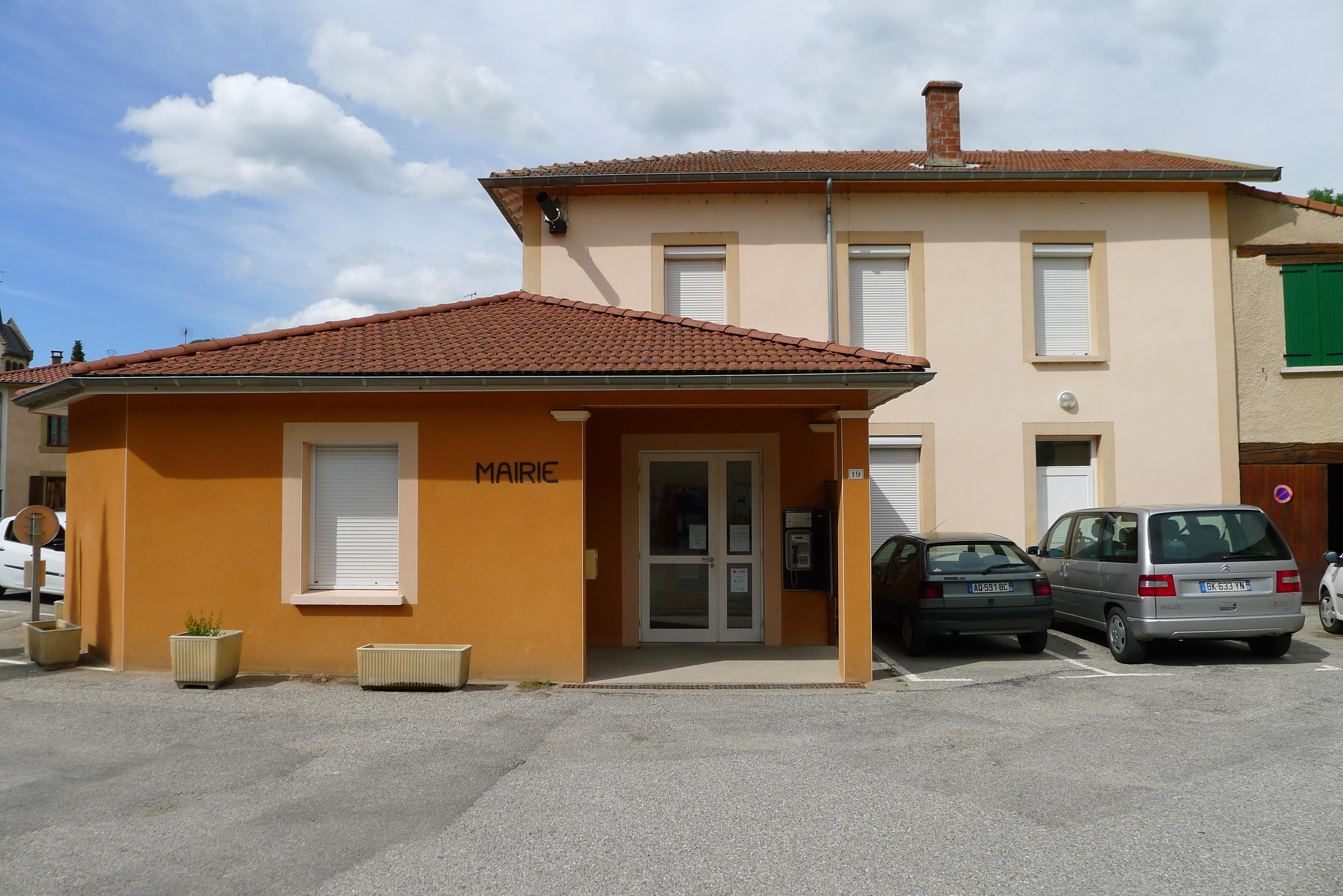 Town hall of Crozes-Hermitage - Drôme - France